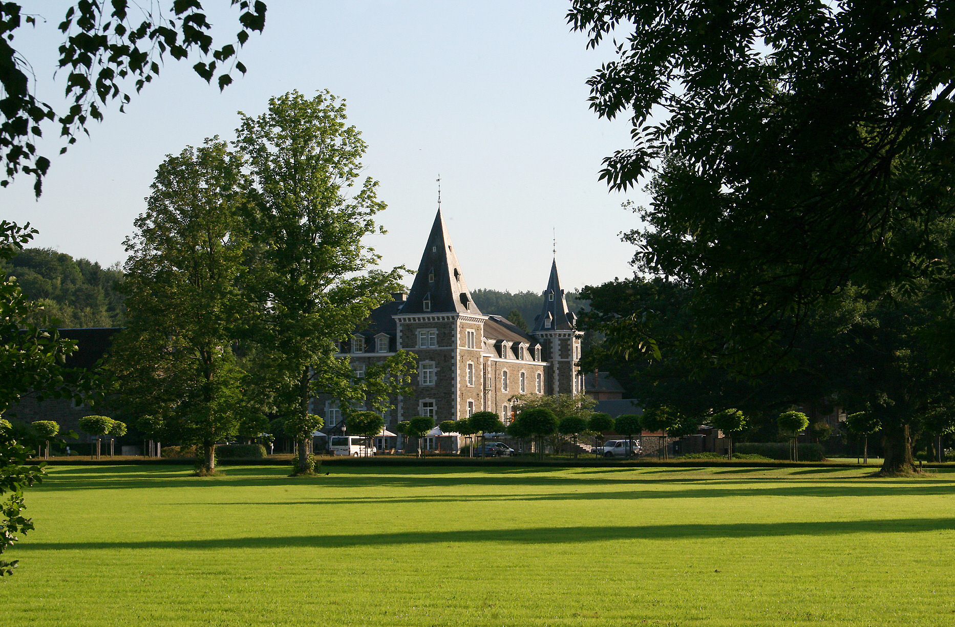 Rendeux (Belgium), the castle.